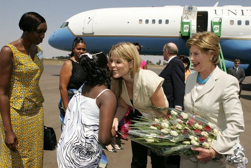 Laura Bush and daughter Jenna Bush are greeted at an arrival ceremony Thursday, July 14, 2005 at Kigali International Airport in Kigali, Rwanda. White House photo by Krisanne Johnson. Subject: Jenna Bush and Laura Bush Source image url: Original description